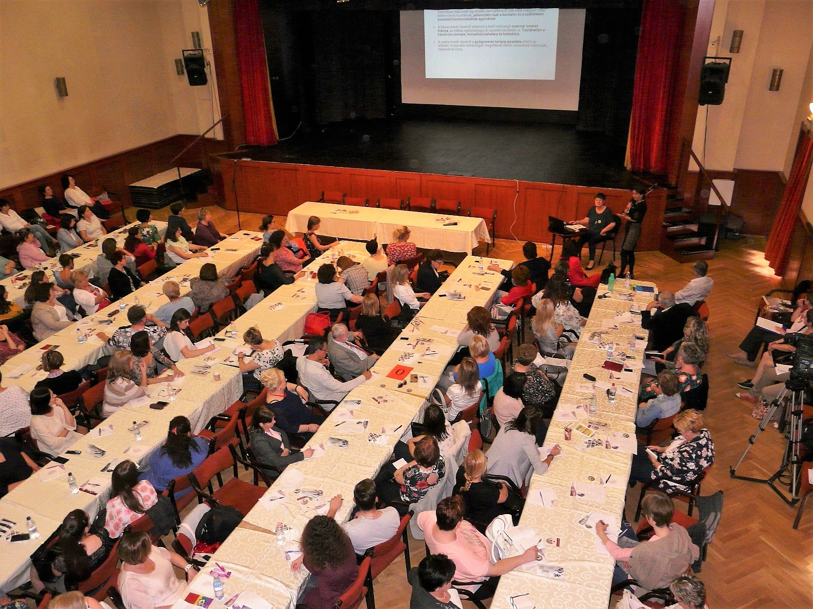 Meeting of Hungarian Alzheimer Cafes (Budapest, 2018)